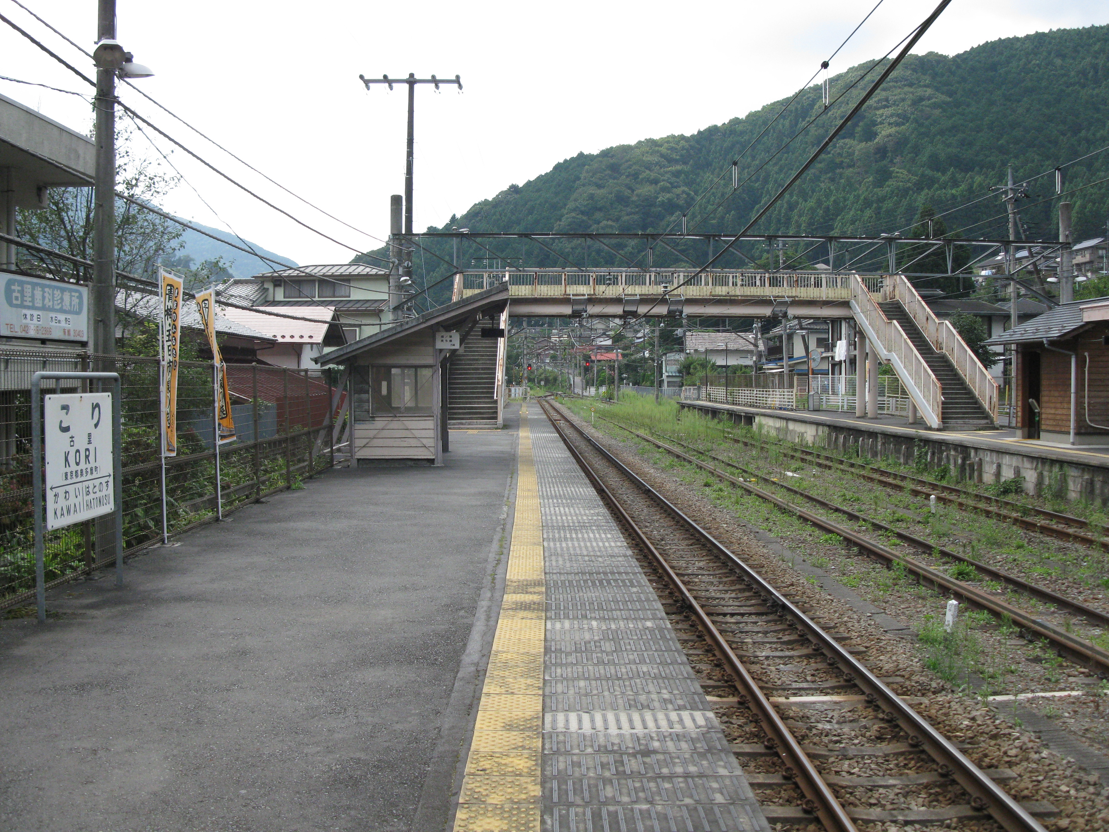 Kori Station platform (East Japan Railway Ōme Line)